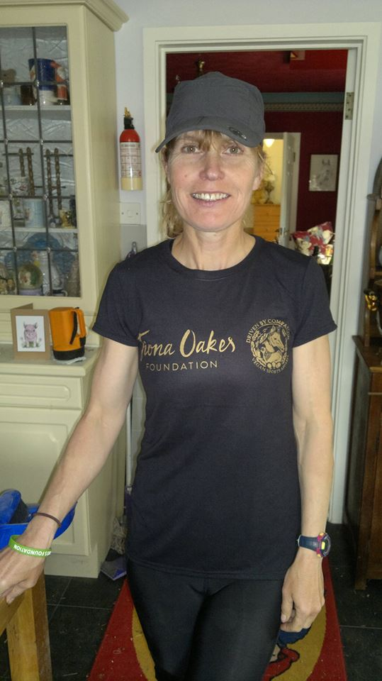 Fiona Oakes is a British marathon runner, who holds three world records for marathon running. vegan. Animal rights advocate.